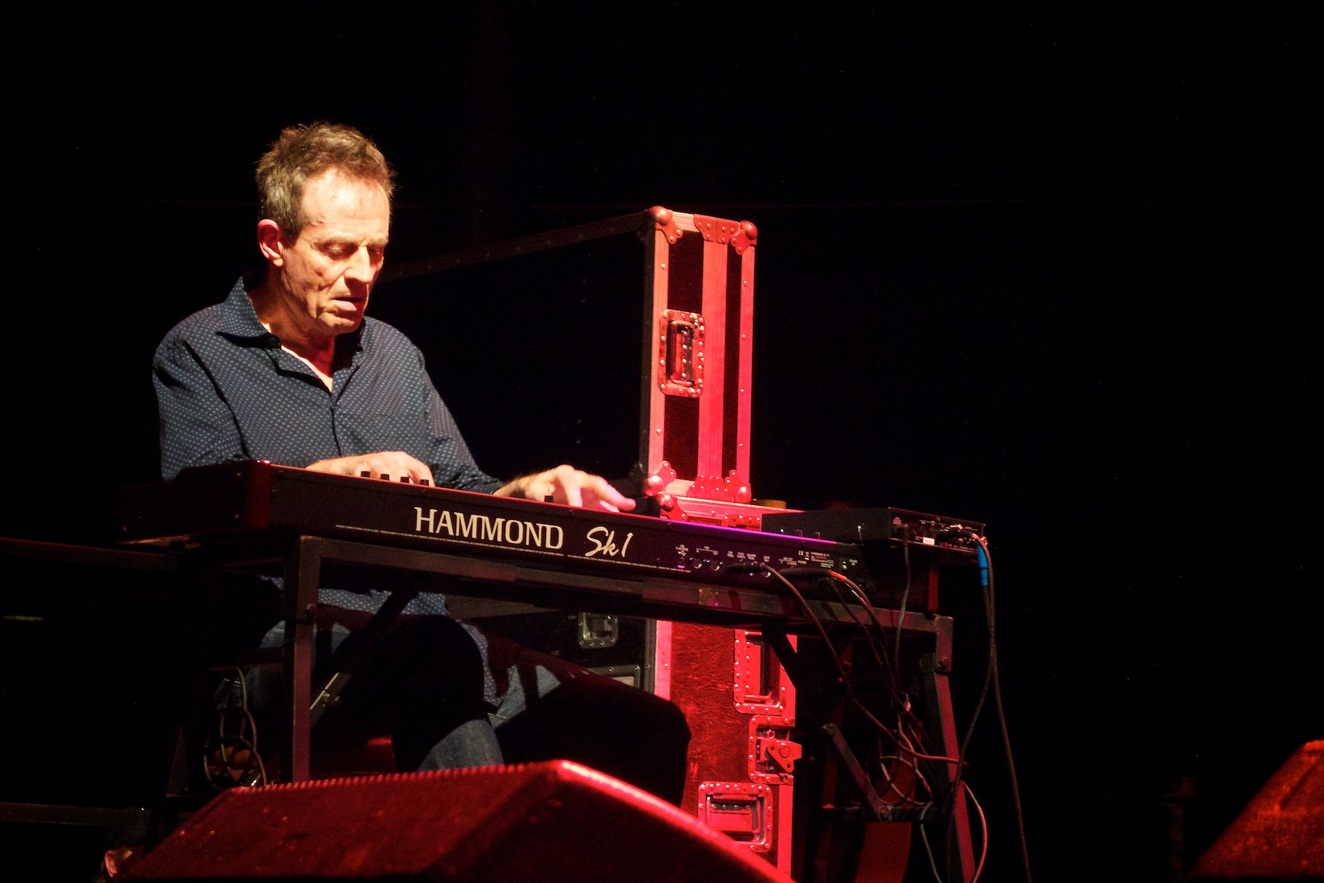 John Paul Jones playing alongside Seasick Steve at the Roundhouse